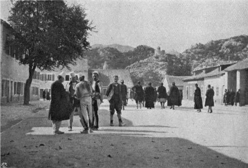 Original description: "Albanians in Cettinje"